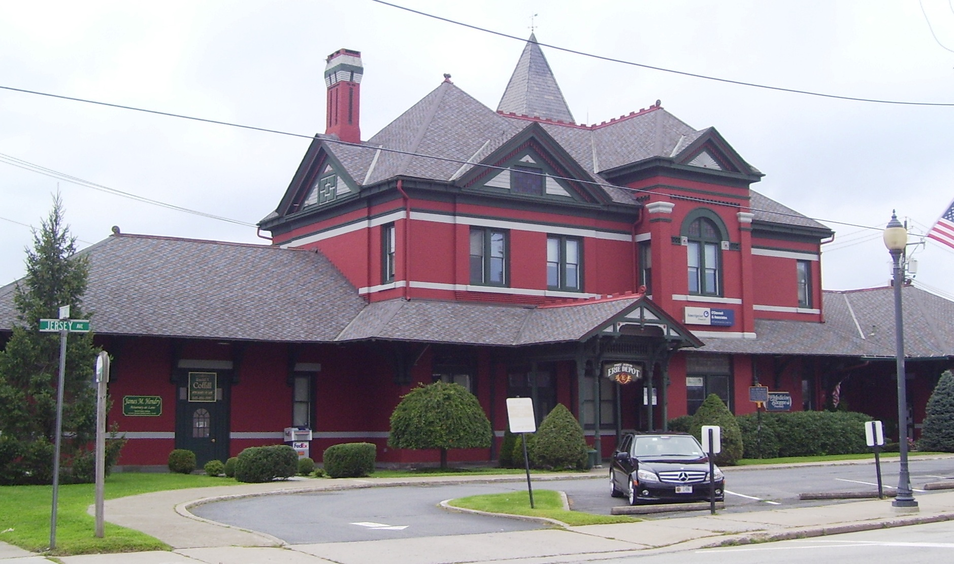 The front of the restored Erie Depot in Port Jervis, New York, built in 1892, at the time the largest epot on the Erie Line.